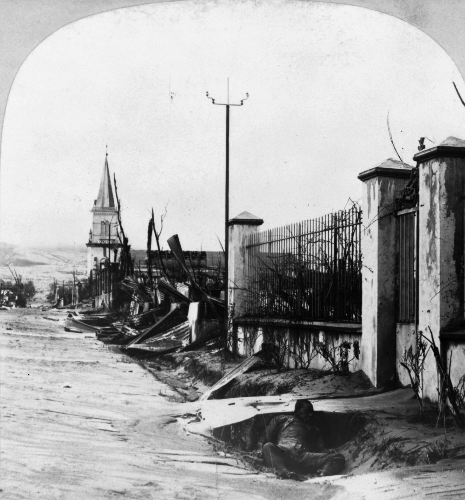 Main Street, Morne Rouge, Martinique, after the eruption of Mount Pelée, Aug 30, 1902. Left half of a stereoscope card.